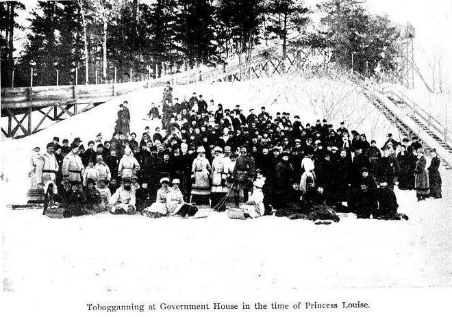 Toboganning at Government House in the time of Princess Louise, [Duchess of Argyll] c 1878; Her consort John Campbell, 9th Duke of Argyll served as 4th Governor General of Canada from 1878 to 1883